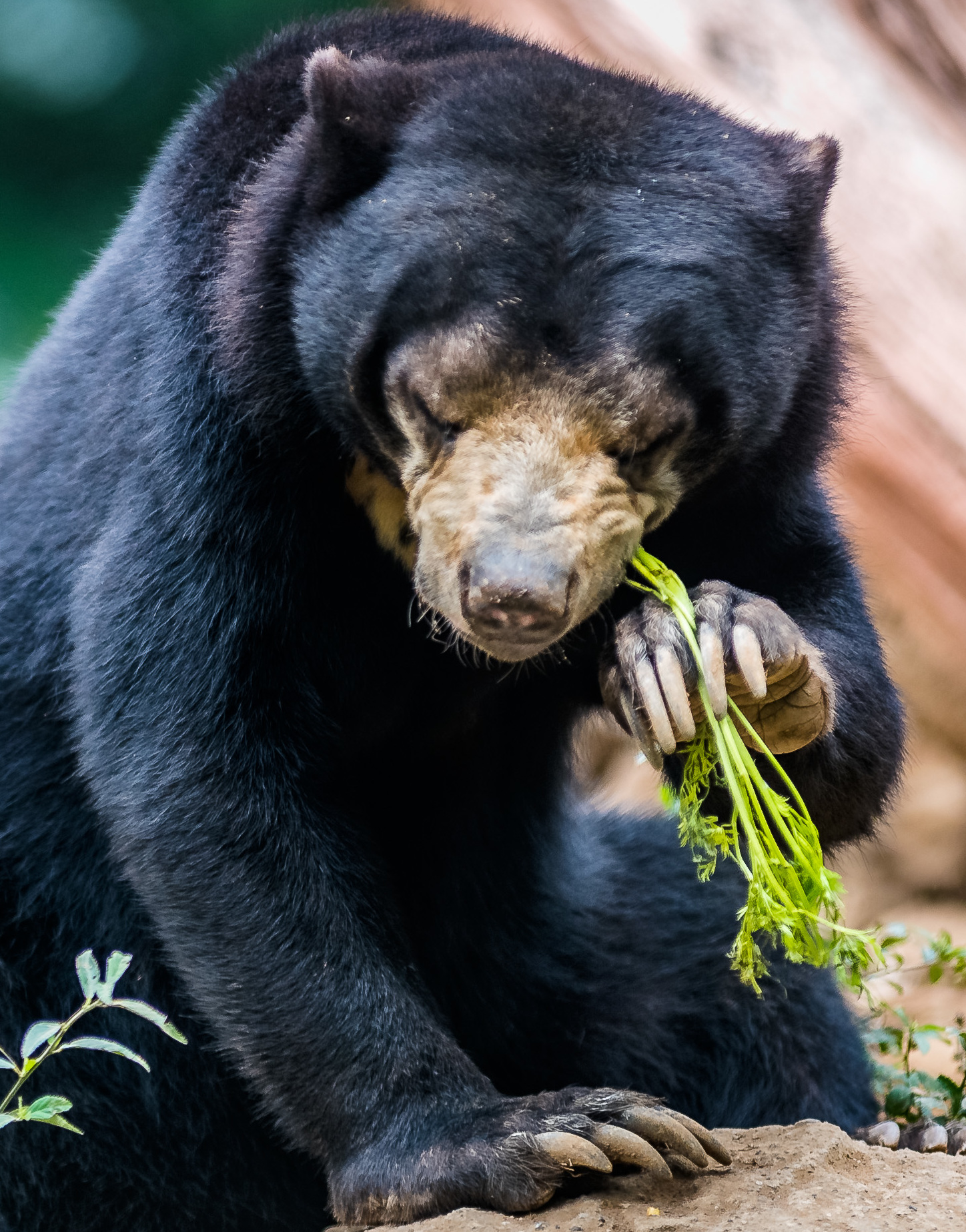 Taman Safari Bogor West Java Indonesia